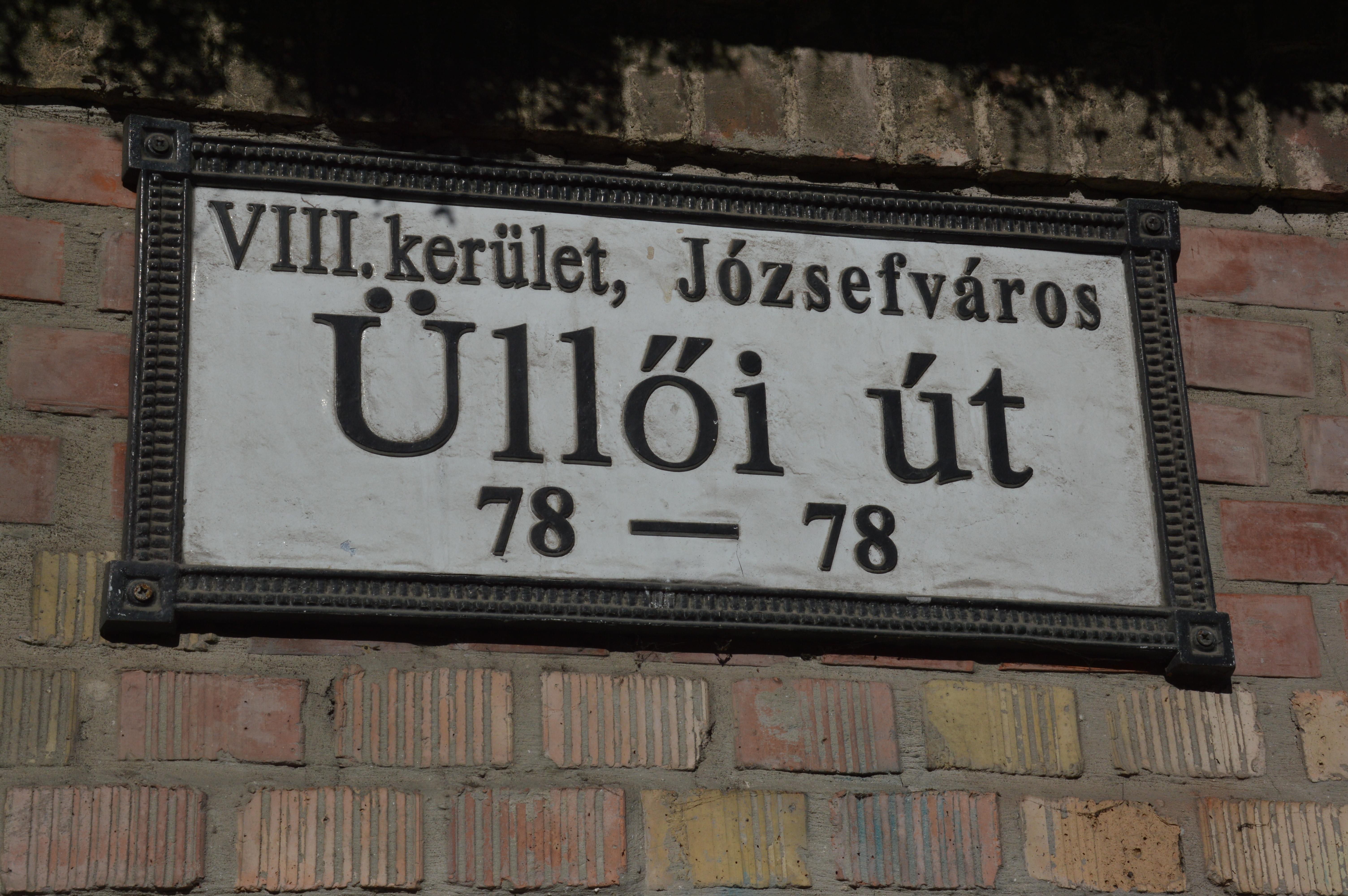 Üllői út street sign in District VIII, Józsefváros, Budapest, Hungary.